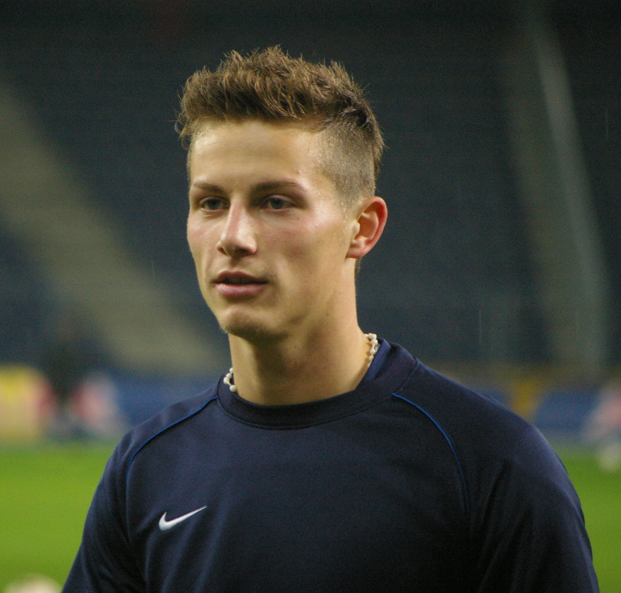 league match Austrian 2nd league